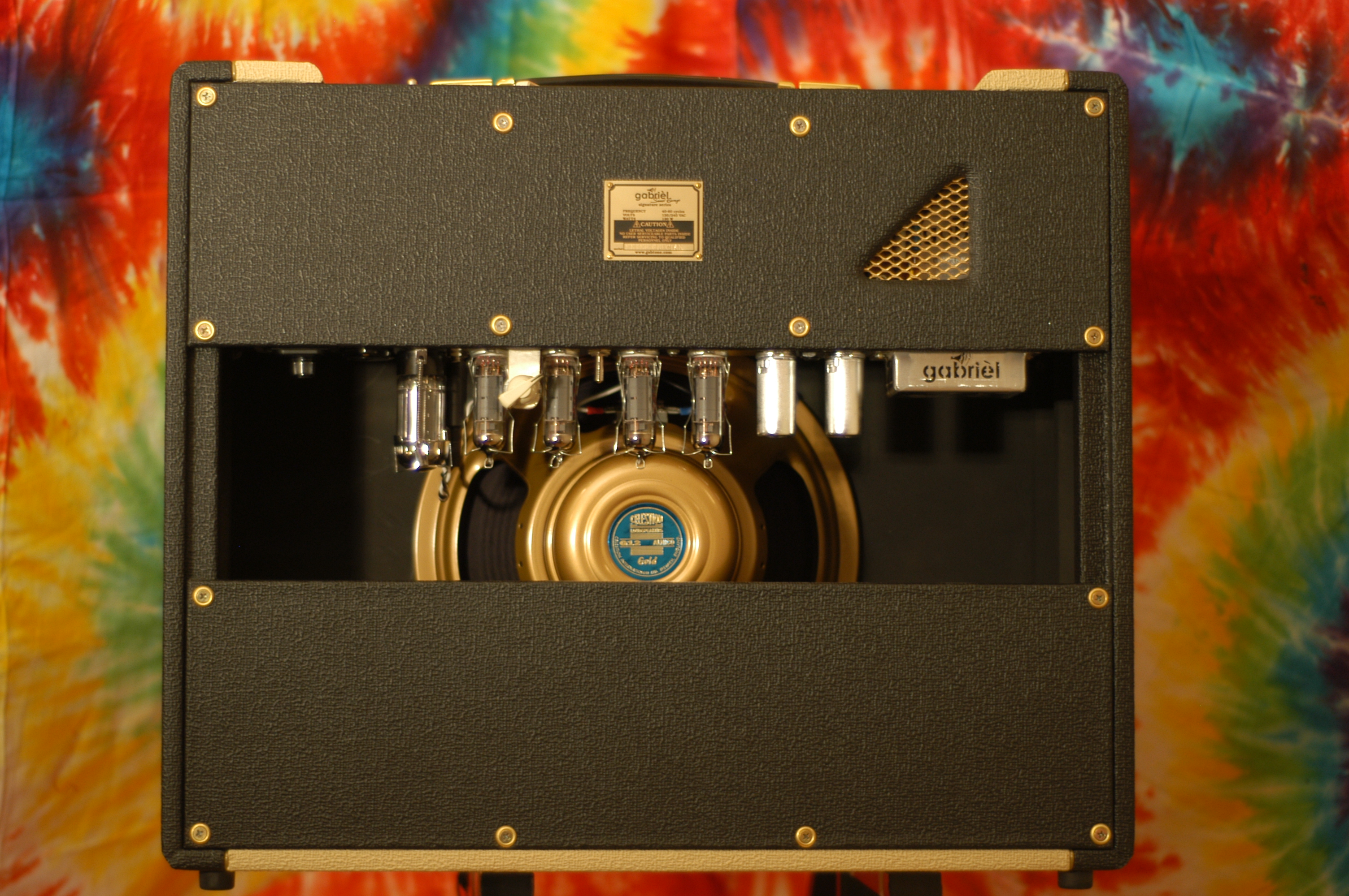 Backside of Gabriel V33 Combo Amp